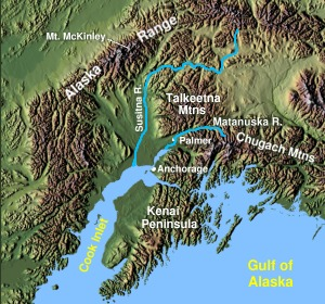 South Central Alaska showing Matanuska and Susitna rivers. © 2004 Matthew Trump